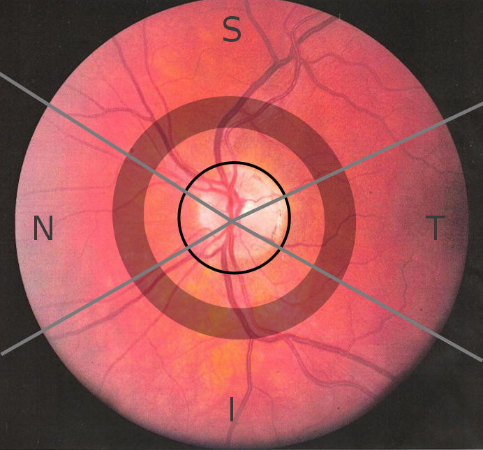 Eye vessles